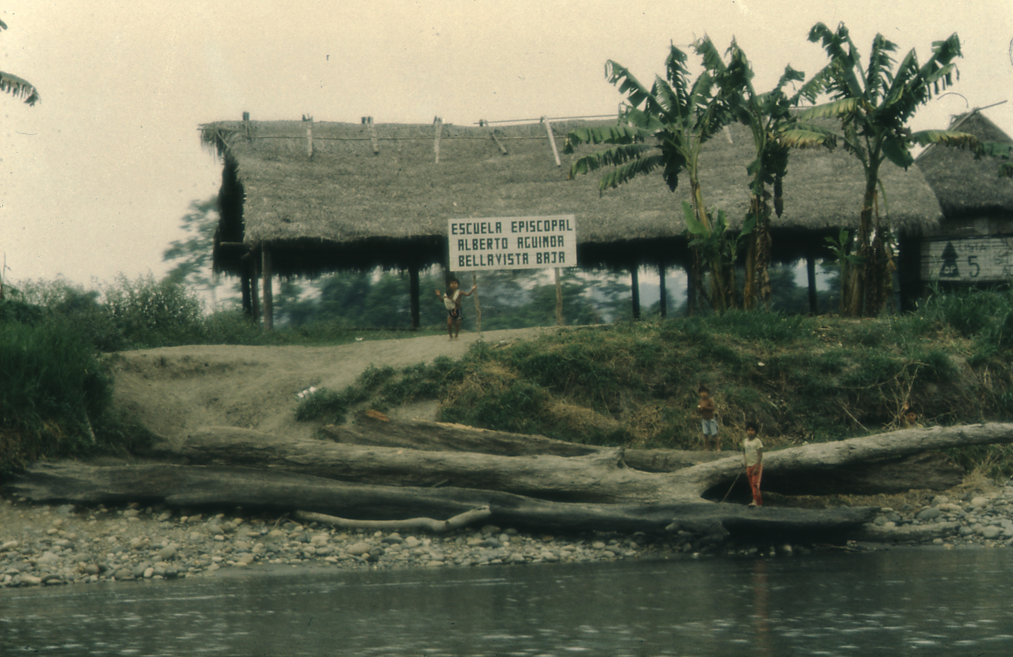 This photo has been scanned with a Reflecta DigitDia 6000 image scanner.